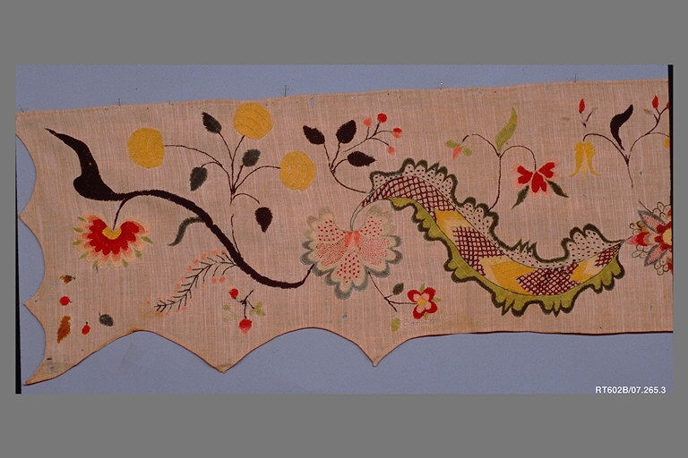 From the collection of the Metropolitan Museum of Art, possibly made in Connecticut, ca. 1760-1770